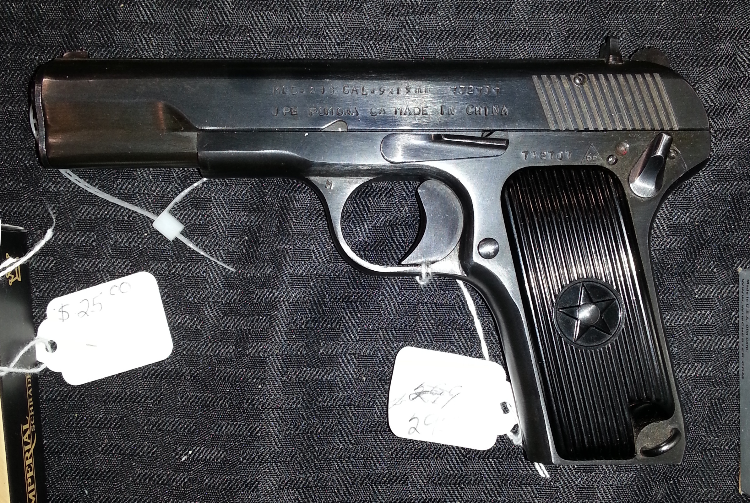 This is a Norinco 213, a 9x19mm copy of the Soviet TT-33 Tokarev pistol. I snapped this picture at a gun show in Sioux Falls, South Dakota this February. I was considering picking one up, since the Tokarev has been on my wish list for a number of years. There were only two problems: 1: It was a 9mm Tokarev. I want a Tokarev in 7.62x25mm. 2: The gun was $275. While that is reasonable, I, sadly, only had $225 on me. I walked into the gun show with $250. (I was in the market for a good old Yugoslavian Mauser) I attempted to talk the seller down, but it's an awful lot to haggle. So, I walked away empty-handed. But I wasn't really all that disappointed. Like I said, (much like a 9mm 1911) a Tokarev in 7.62 is really the only caliber you can go with for it. It's the caliber the gun was designed for and shooting anything else through the design just feels strange. That and 7.62 is a fun caliber to shoot, cheap and packs a punch! I later found out that I may have been lucky to skip out on a Chinese Tok, because they were constructed with cheap, softer metals (no real shock, knowing Chinese quality) so it has a short service life of 2,000 rounds (though I'm sure most are shot beyond that). I'm really waiting to come across a new production Zastava M57A Serbian Tokarev, or a Yugoslavian Tokarev, for a few reasons. One being that they have a higher capacity magazine and two being that they're still cheap and quality. Why pay $275 for a used crappy Chinese Tokarev in the caliber I didn't even want when I could just pay slightly more for a brand new Serbian Tokarev with a safety that actually works as opposed to just being tacked on at the rear to comply with import restrictions? (Although I do like the position of the safety on this gun). Eh, I probably didn't miss out. Note that in the background, there is a folding knife of unknown make, a Ruger Single Six in an unknown caliber and an Imperial Schrade knife in a box. I do not know the identity of the box on the left.